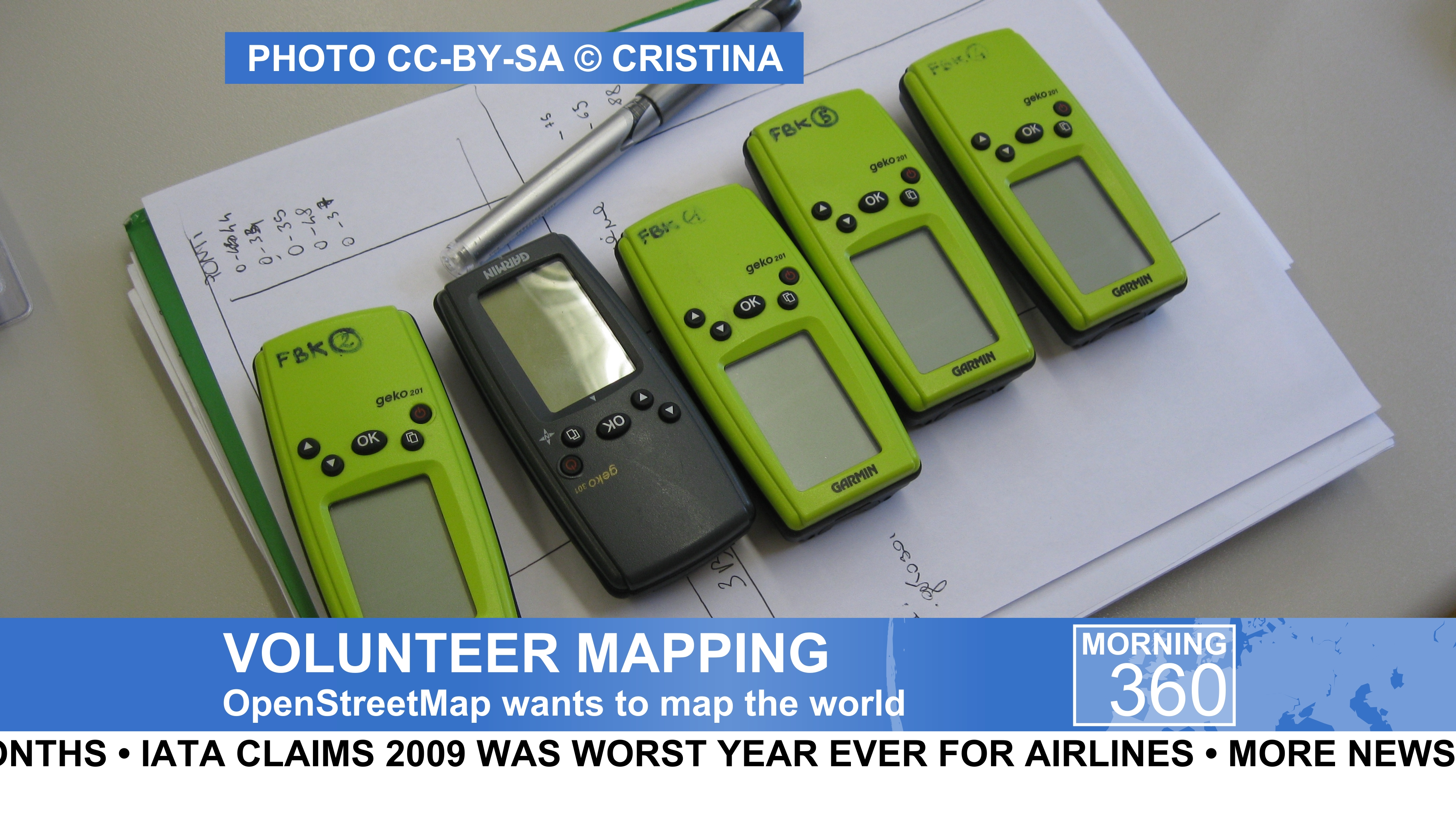 Garmin Gekos used at a mapping event at CTS Einaudi, Bolzano, Italy. Taken by Flickr user krpamayii. On-screen overlays for the fictional morning news program "Morning 360". Overlays are designed to be used in conjunction with File:OSM Gekos 16-9.jpg, and contain caption and attribution information for that image. The map of Europe is used as a background for the lower-third. Note that all actual content is within the 4:3 "safe area".